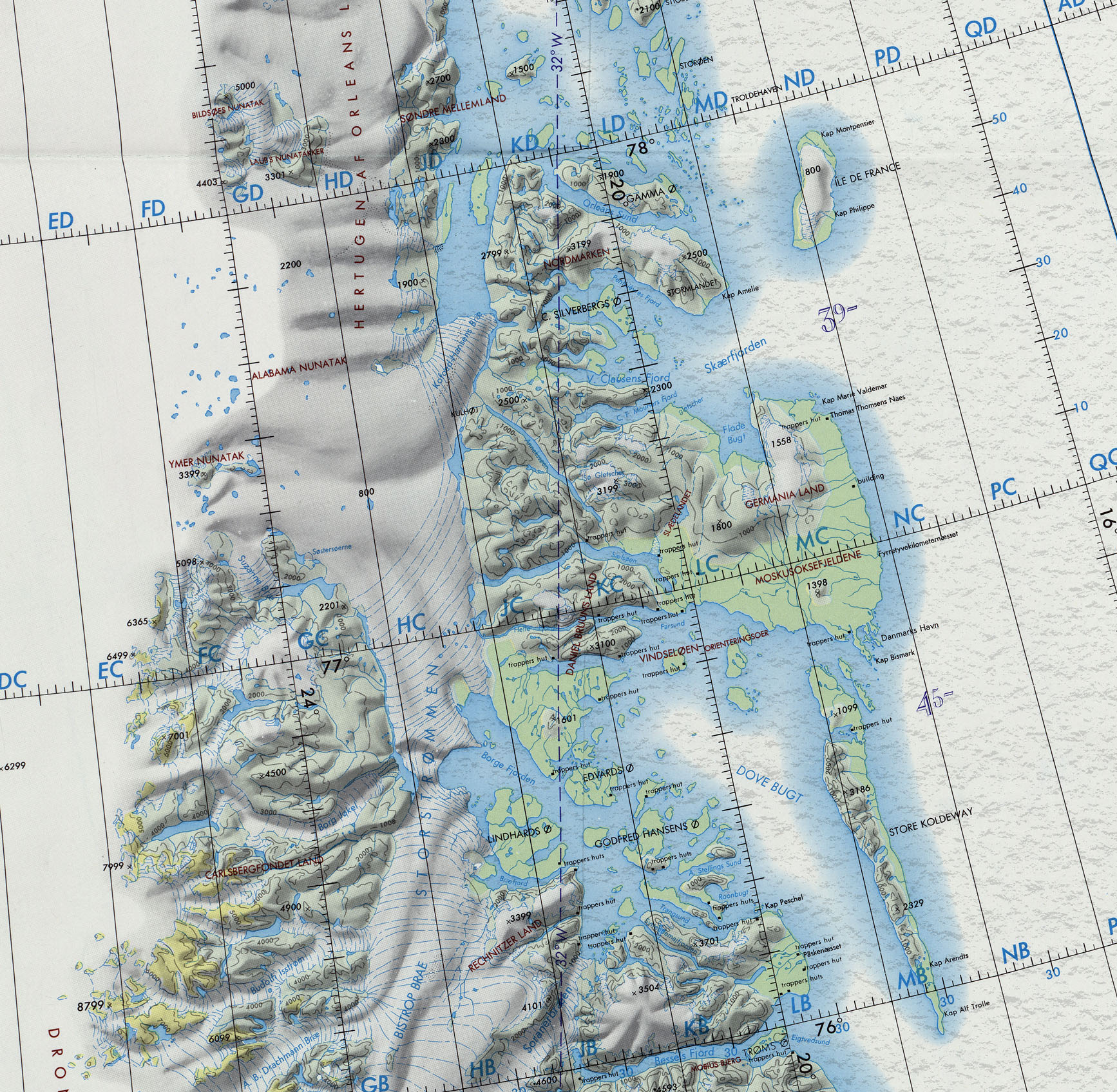 1:1,000,000 scale Operational Navigation Chart, Sheet B-9, 1st edition. Covers Greenland (Denmark). Lambert Conformal Conic Projection. Standard Parallels 73 20N and 78 40N. Central longitude 32 45W.